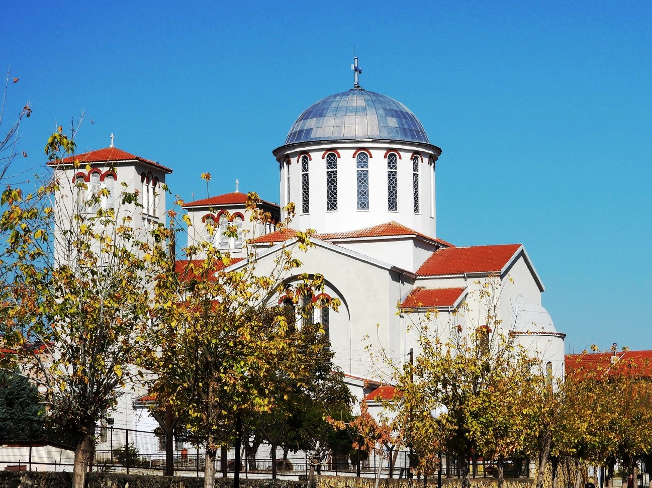 Church of St. Paraskeva in Florina